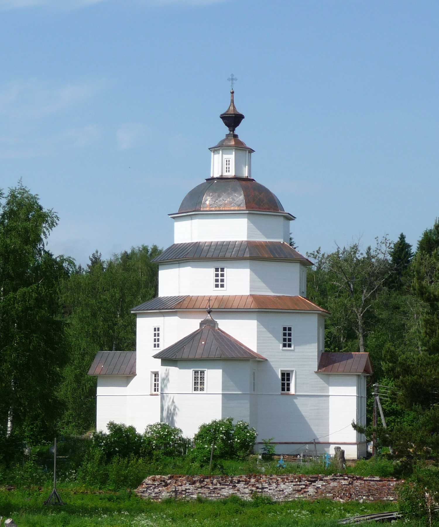 Church of Elijah the Prophet in_Tsipino_Pogost. About Ferapontov Monastery, Vologodskaya oblast, Russia